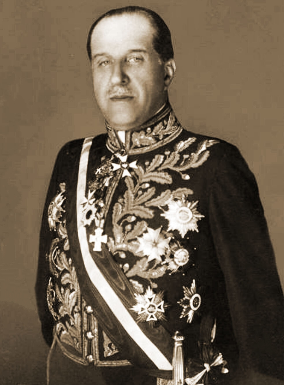 Stefan Przeździecki (1879-1932) – Polish diplomat, ambassador of Poland to Italy 1929-1932